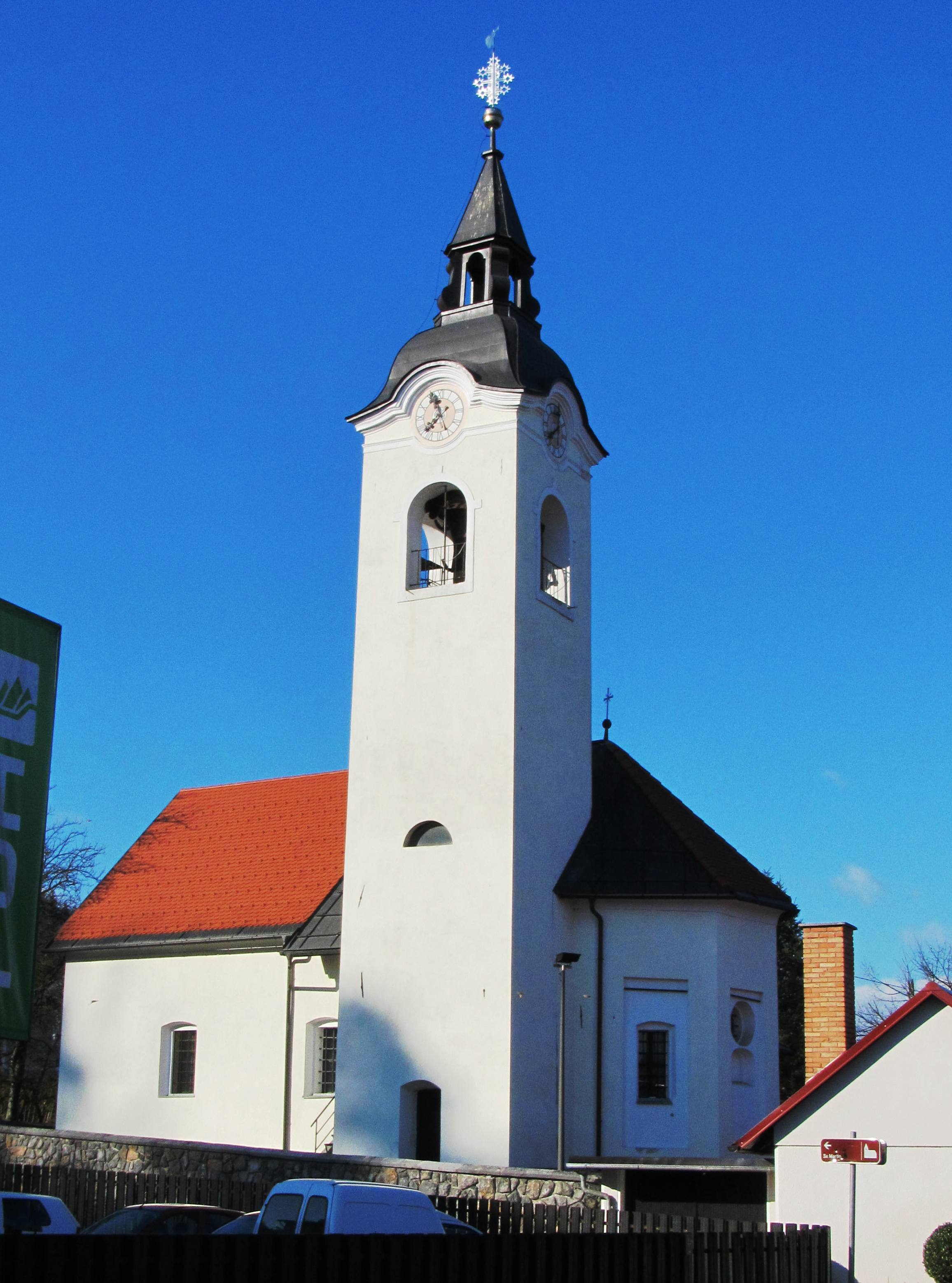 Church of St. Martin - Podsmreka, Municipality of Dobrova–Polhov Gradec, Slovenia